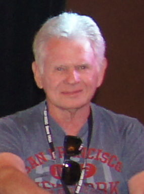 (Seated, L-R) Marilyn Burns, Teri McMinn, William Vail, Ed Neal, John Dugan, Ed Guinn, Allen Danziger from the TCM panel at Days of the Dead Indianapolis 2012.